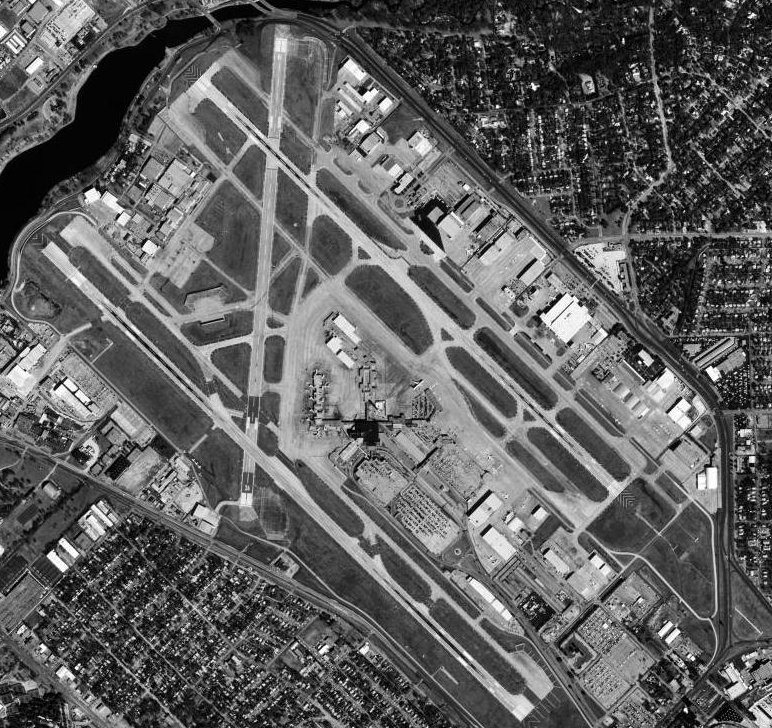 USGS orthophoto of Dallas Love Field, an airport in Dallas, Texas, United States.